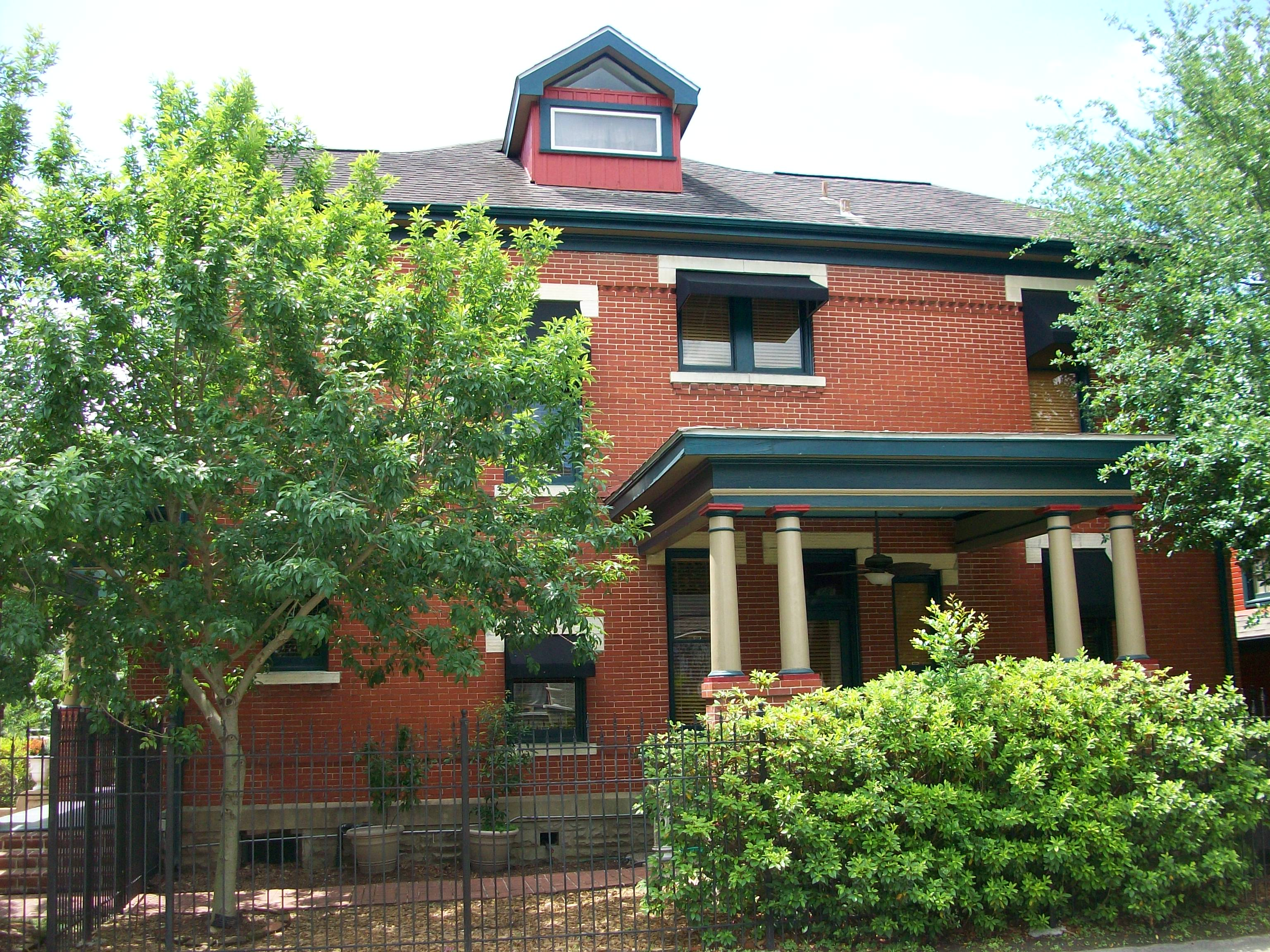 Side view including car port